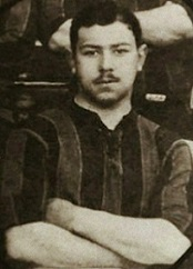 Hikmet Topuzer designed the Fenerbahce amblem